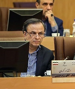 Ali Reza Razm Hosseini